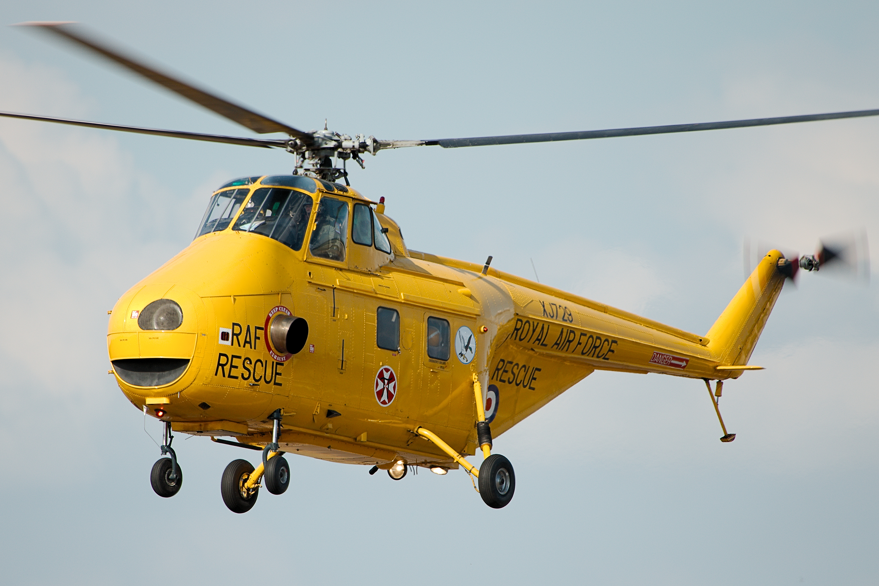 Whirlwind - RIAT 2018